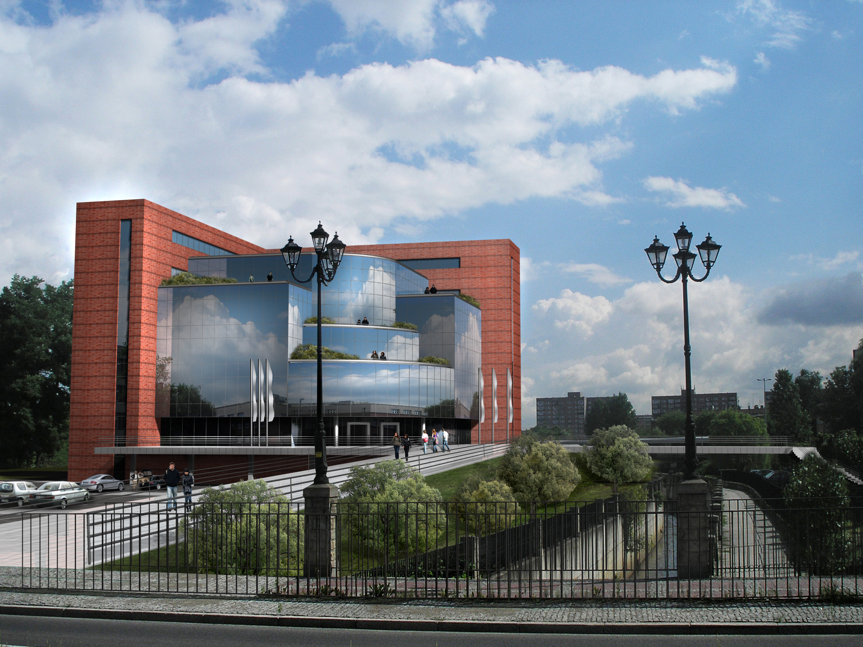 Centrum Nowoczesnych Technologii Informatycznych (CNTI)